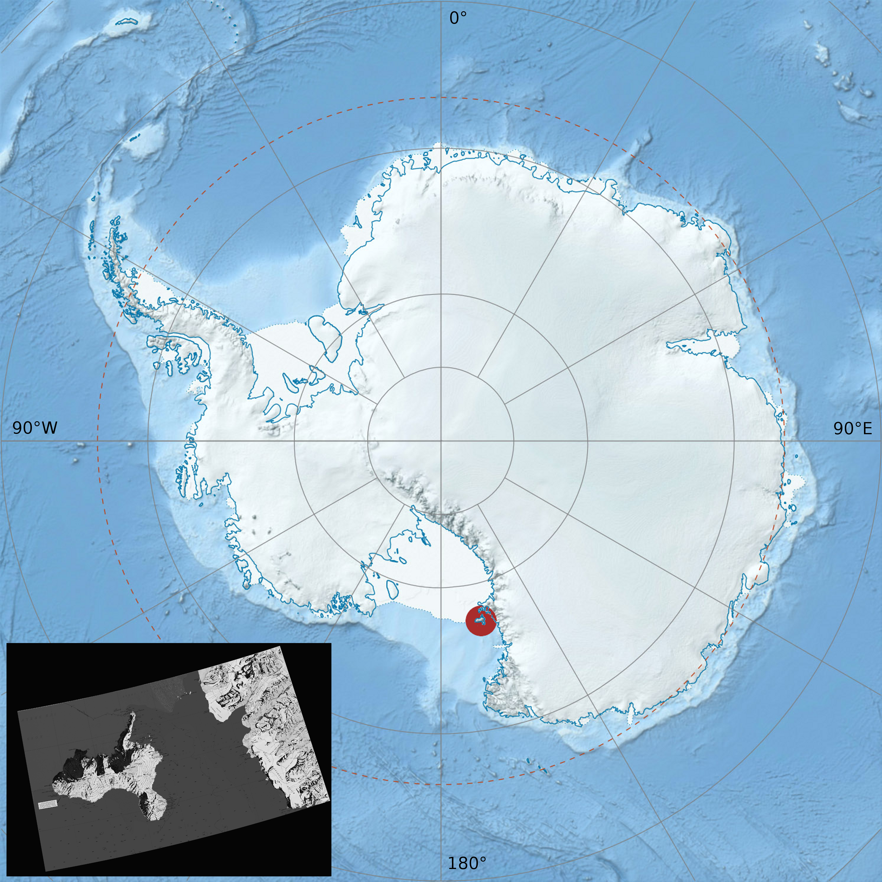 Location of Ross Island, Antarctica, Azimuthal equidistant projection